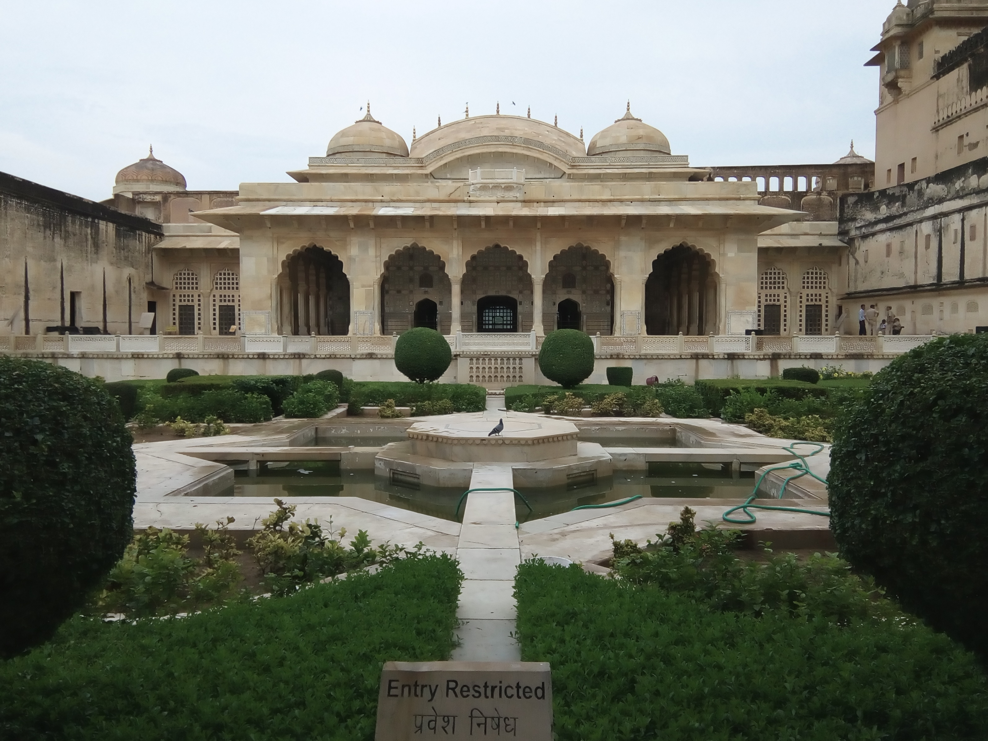 This photo has been taken in the country: India